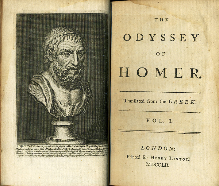 Frontispiece and Titlepage of a 1752 edition of Alexander's Pope's translation of The Odyssey.